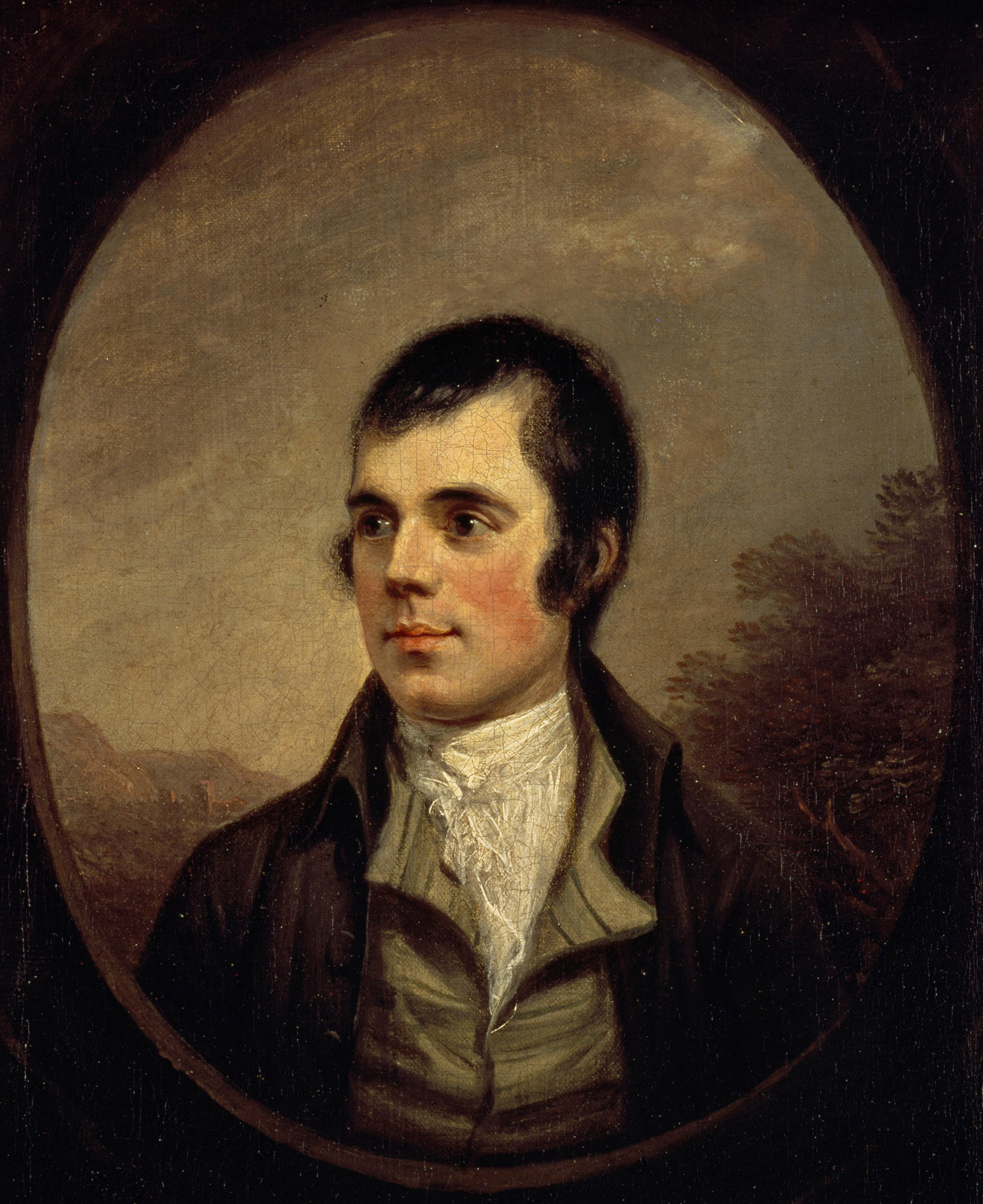 Robert Burns, 1759 - 1796. Poet 1787. This half-length portrait of Burns, framed within an oval, has become the most well-known and widely reproduced image of the famous Scottish poet. Nasmyth's painting, commissioned by the publisher William Creech, was to be engraved for a new edition of Burn's poems. He is shown fashionably dressed against a landscape, evoking his rural background in Alloway, Ayrshire. Burns and Nasmyth had become good friends, having been introduced to one another in Edinburgh by a mutual patron, Patrick Miller of Dalswinton. Nasmyth, pleased to have recorded Burns' likeness convincingly, decided to leave the painting in a slightly unfinished state.